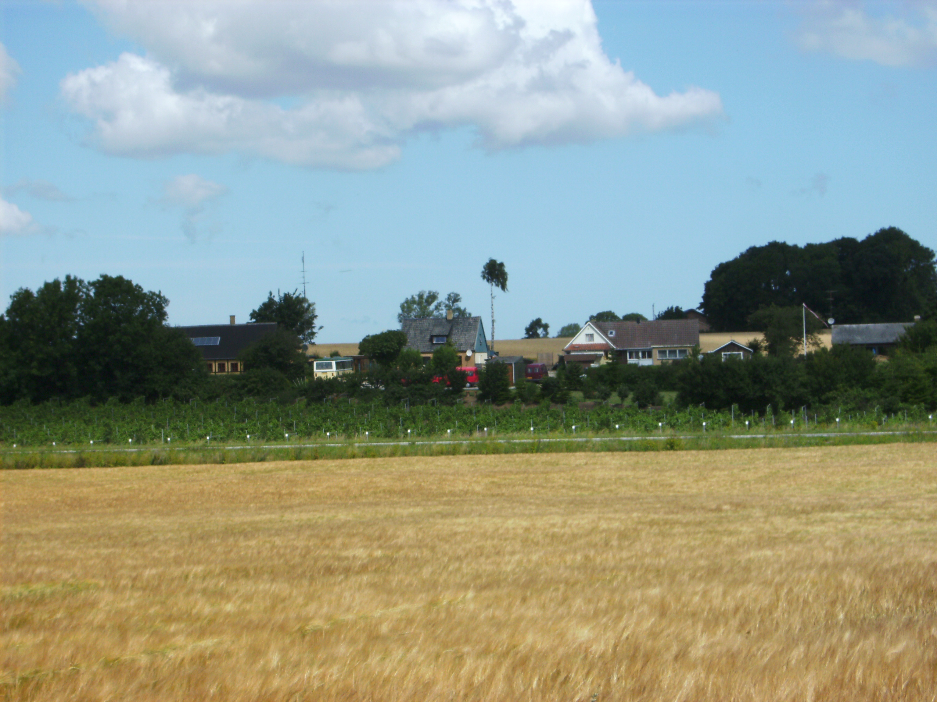 Vineyard in Sløsse, Lolland, Denmark